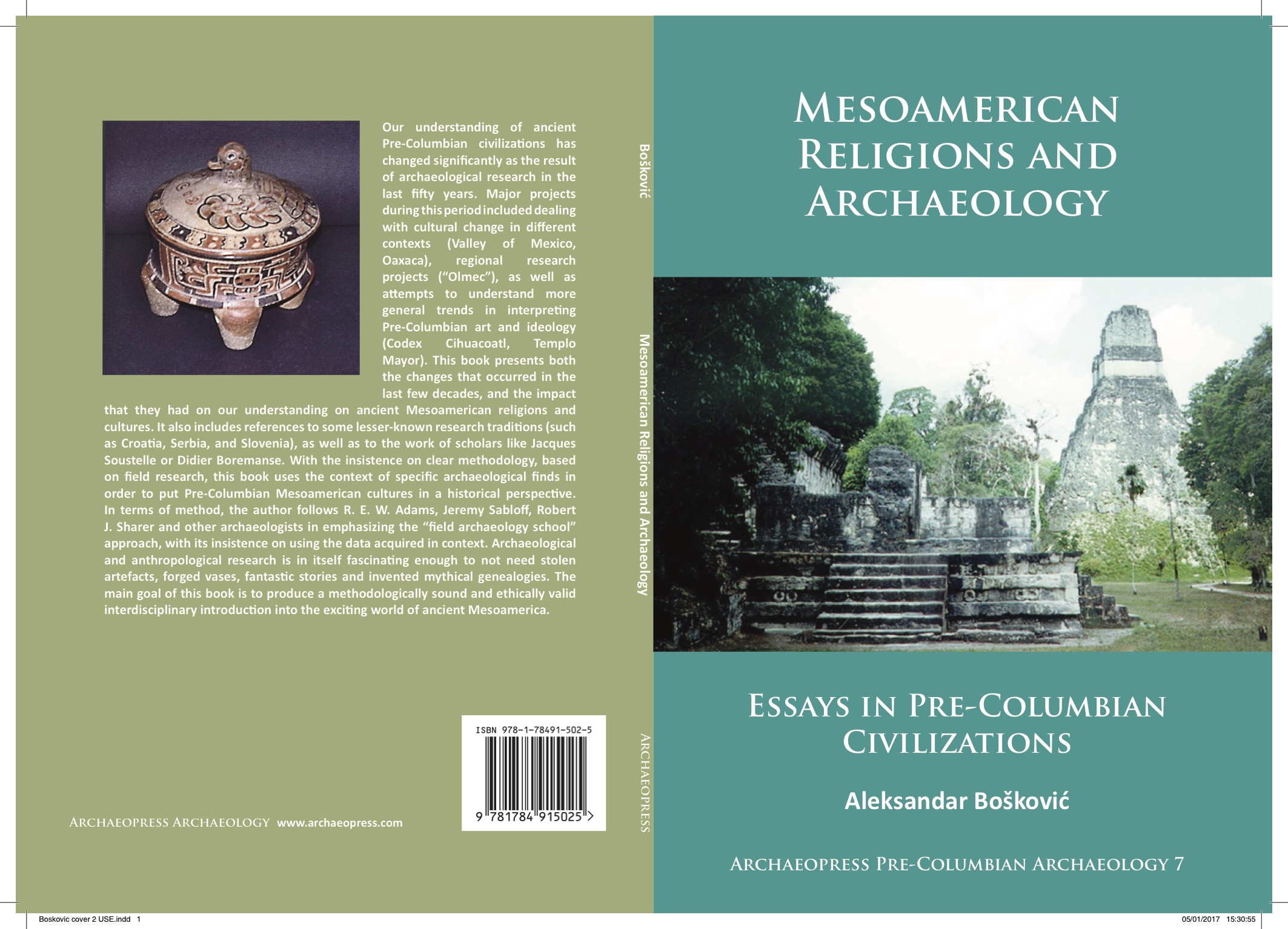 Cover of the book Mesoamerican Religions and Archaeology